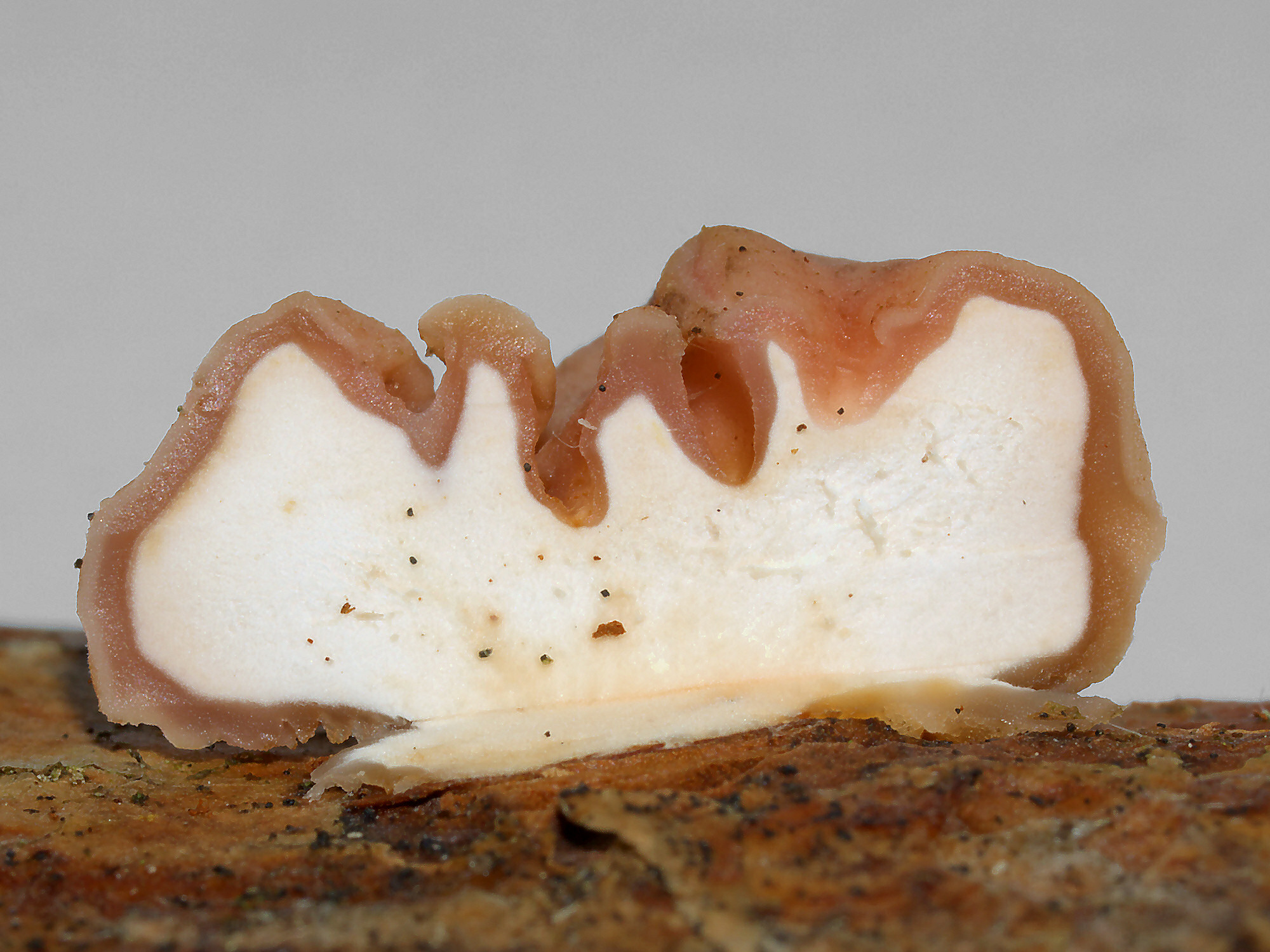 Profile: Tremella encephala overlays the deformed fruitbody of Stereum sanguinolentum on Pinus sylvestris.